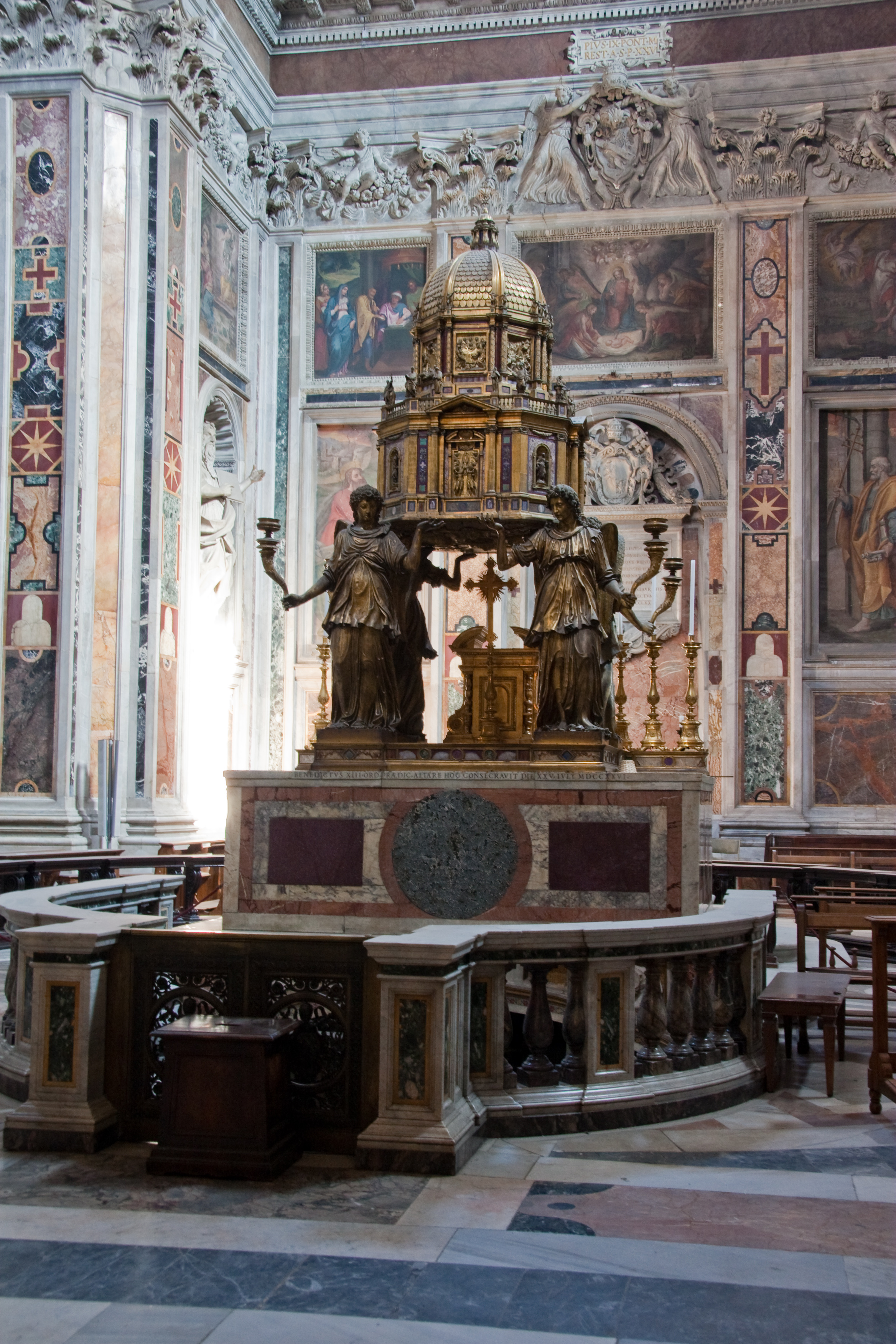 The Basilica di Santa Maria Maggiore is a church on the Esquilino in Rome, Italy. 41°53′50.4″N 12°29′56″E / 41.897333°N 12.49889°E